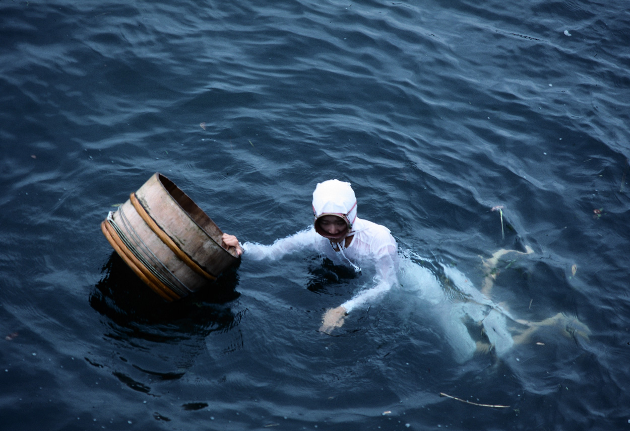 Ama (pearl diver) in Japan. I took this photo and contribute my rights in it to the public domain. People and organizations may retain rights to images in it.